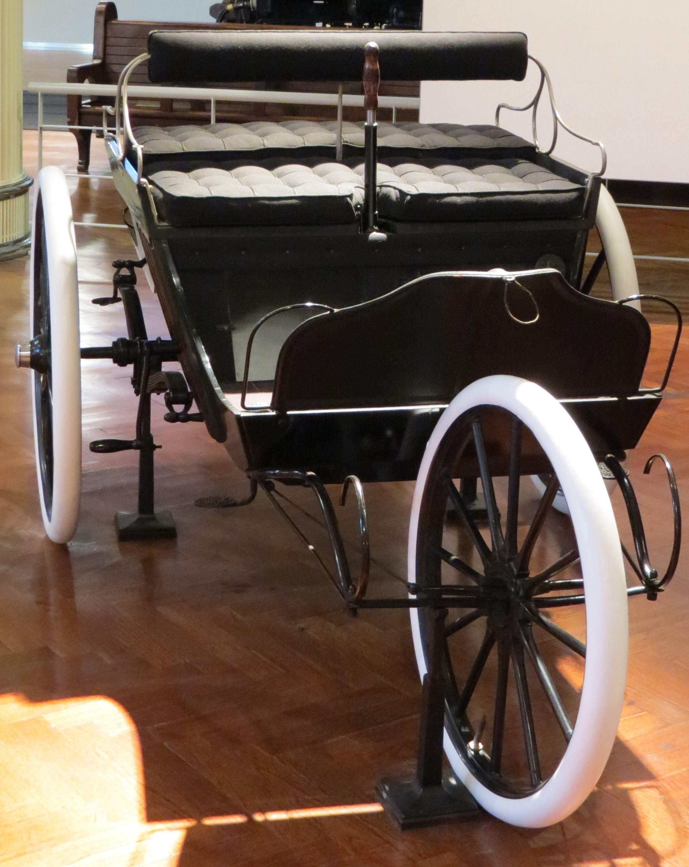 An 1899 Duryea located at the Henry Ford Museum in Dearborn, MI